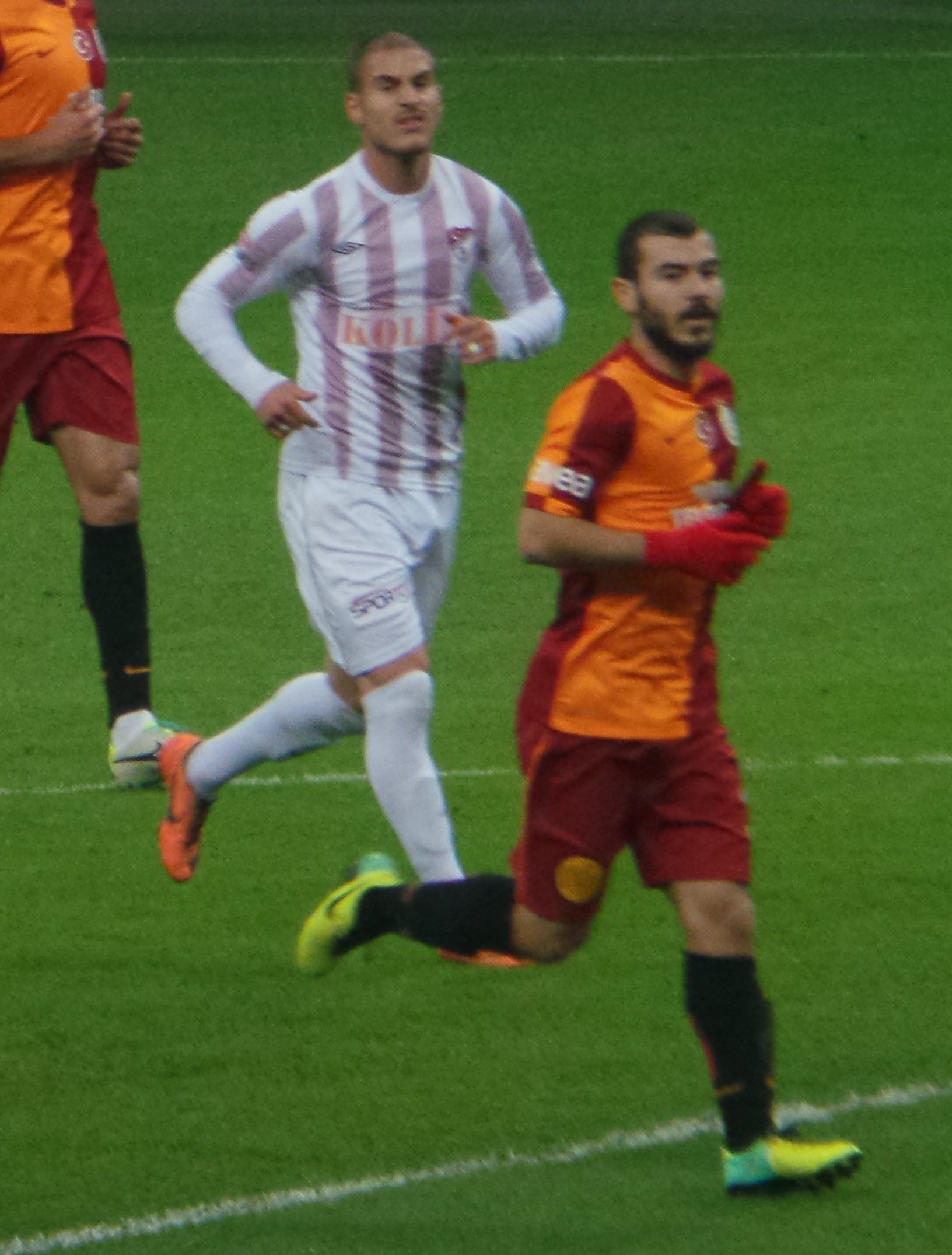 Deniz Yılmaz and Yekta Kurtuluş